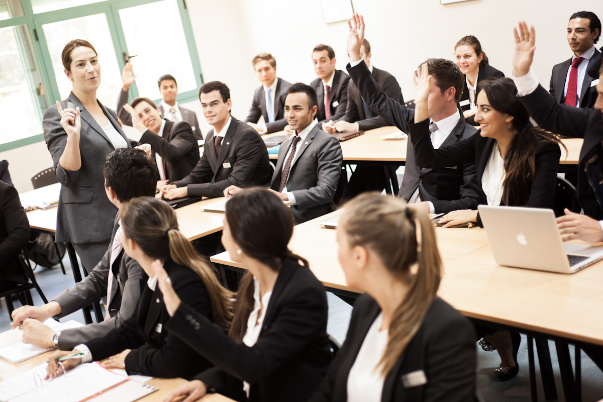 Academic Classroom at Les Roches Marbella